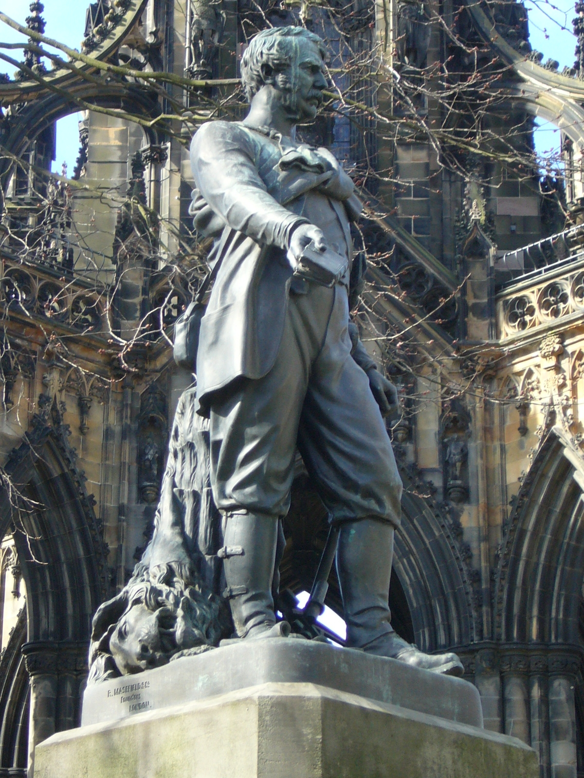 Statue commemorating the Congregationalist missionary, explorer of Africa and enemy of slavery who became a popular hero of late-Victorian Britain. The statue was proposed in 1874, a year after reports arrived of Livingstone's death in Zambia. He shares the plinth with the lion he shot in Mabotsa. Savaged by the enraged animal before it was brought down by a spear, Livingstone lost the effective use of his left arm which was crushed; but his right arm retains the power to extend the Bible. The architecture behind belongs to the Scott Monument. "It is tempting to point to the special success of Scotsmen - Bruce, Park, Clapperton and Livingstone - in living off the land in Africa, and ascribe their gifts of endurance under difficulties of diet to a background of porridge-eating at home, as contrasted with the traditionally more carniverous Englishman, who must have sadly missed his beef in a continent where the slaughtering of cattle for food was a rare luxury." -- Dr. Ronald Miller, Scottish lecturer